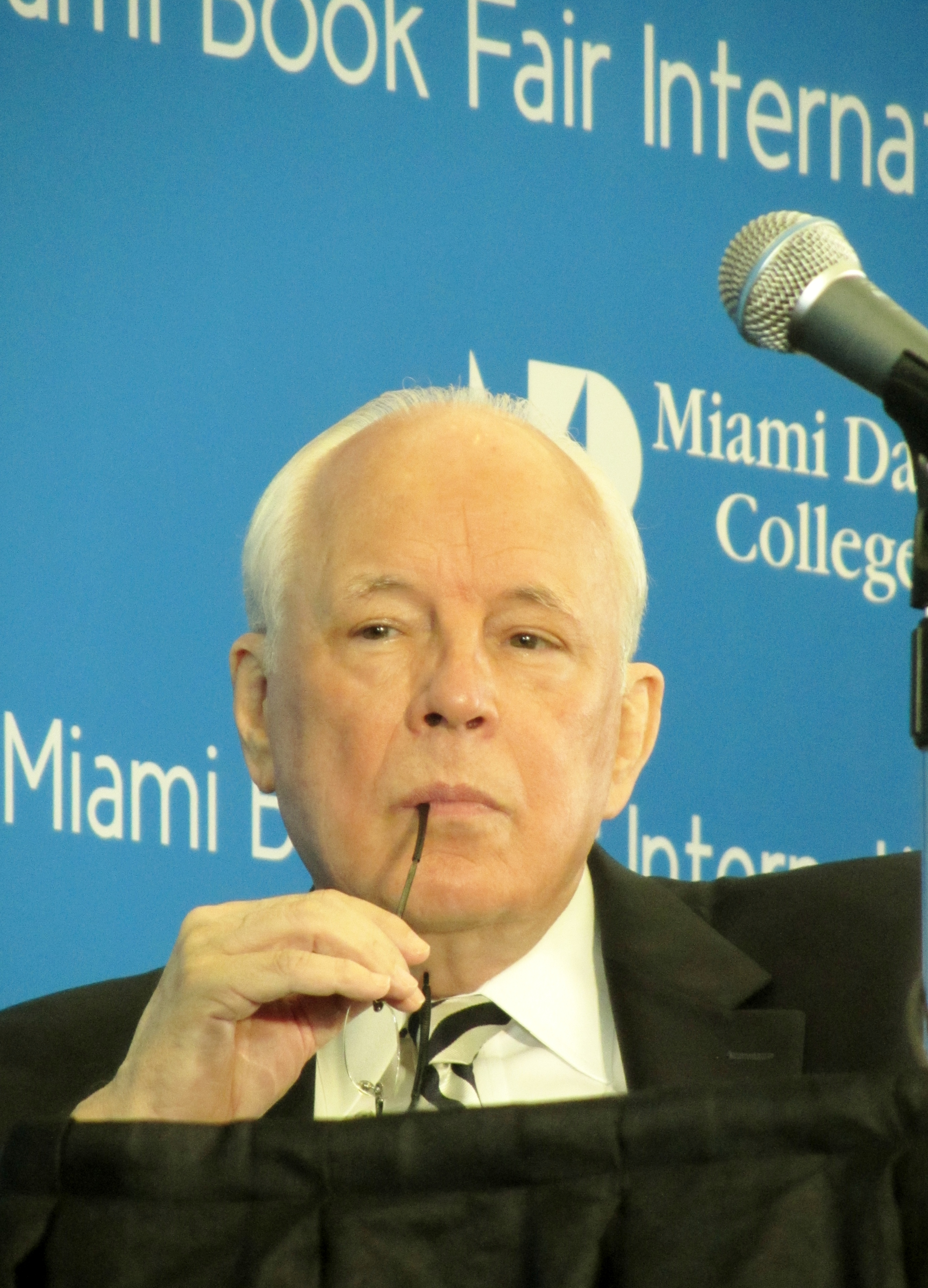 American author John Dean at the Miami Book Fair International 2014